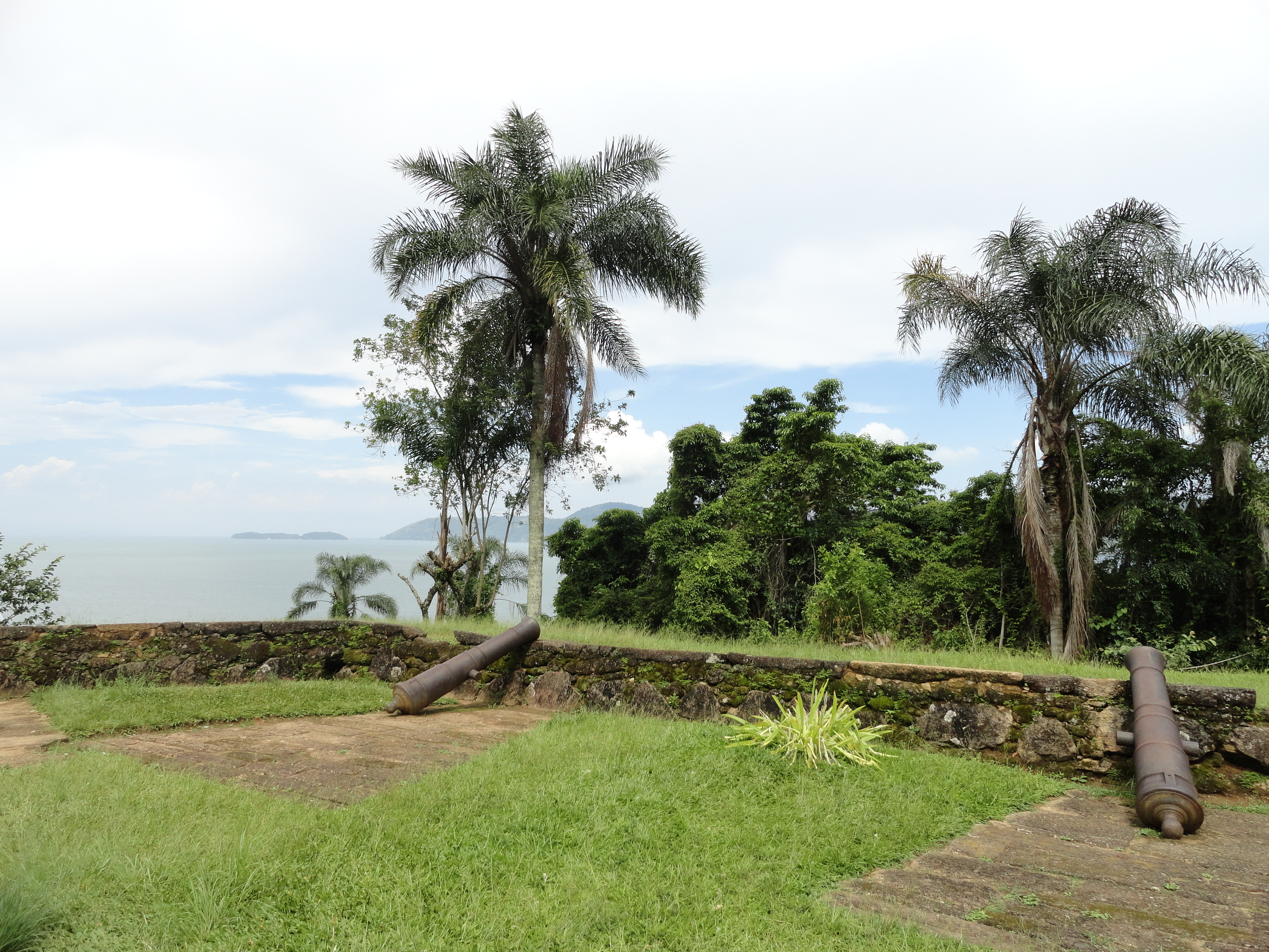 in Paraty